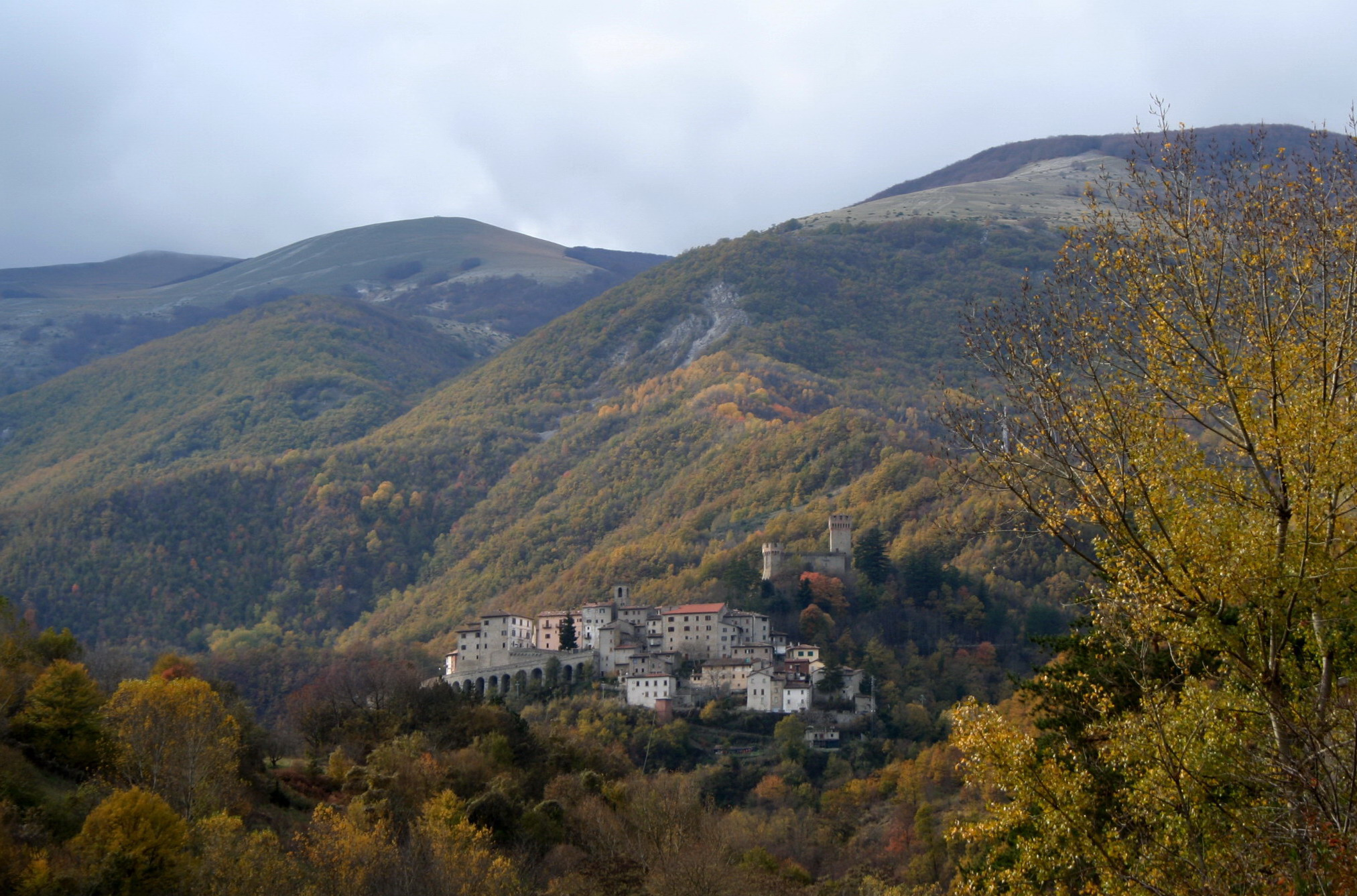 General view of Arquata del Tronto (province of Ascoli Piceno, Marche, Italy)